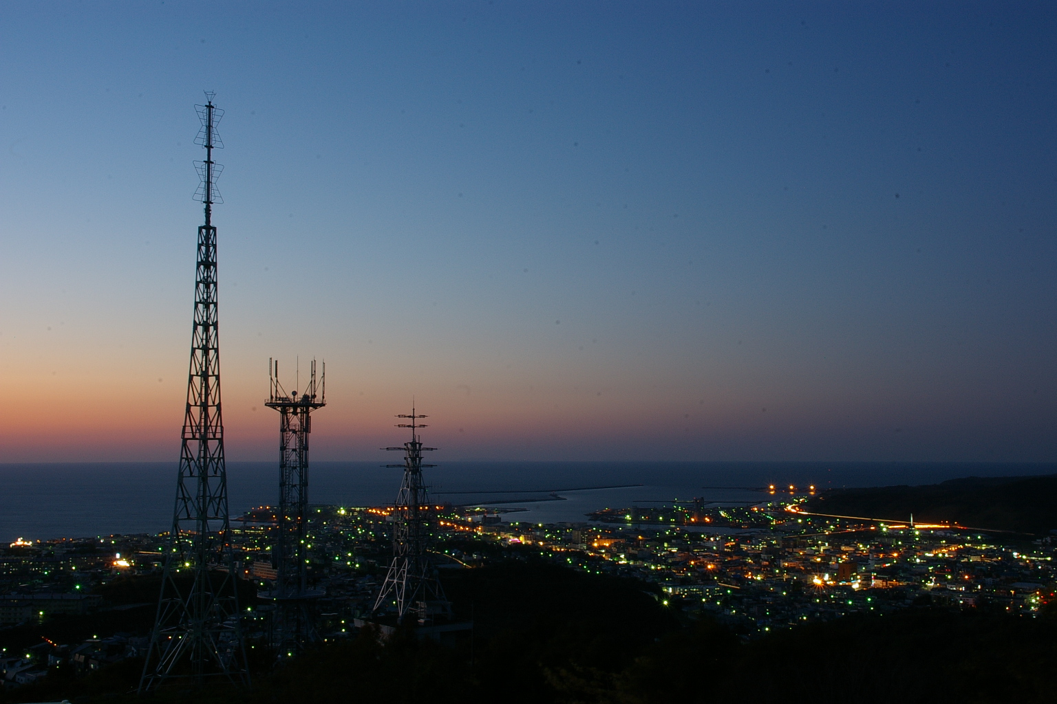 Nightview of Rumoi city, hokkaido.